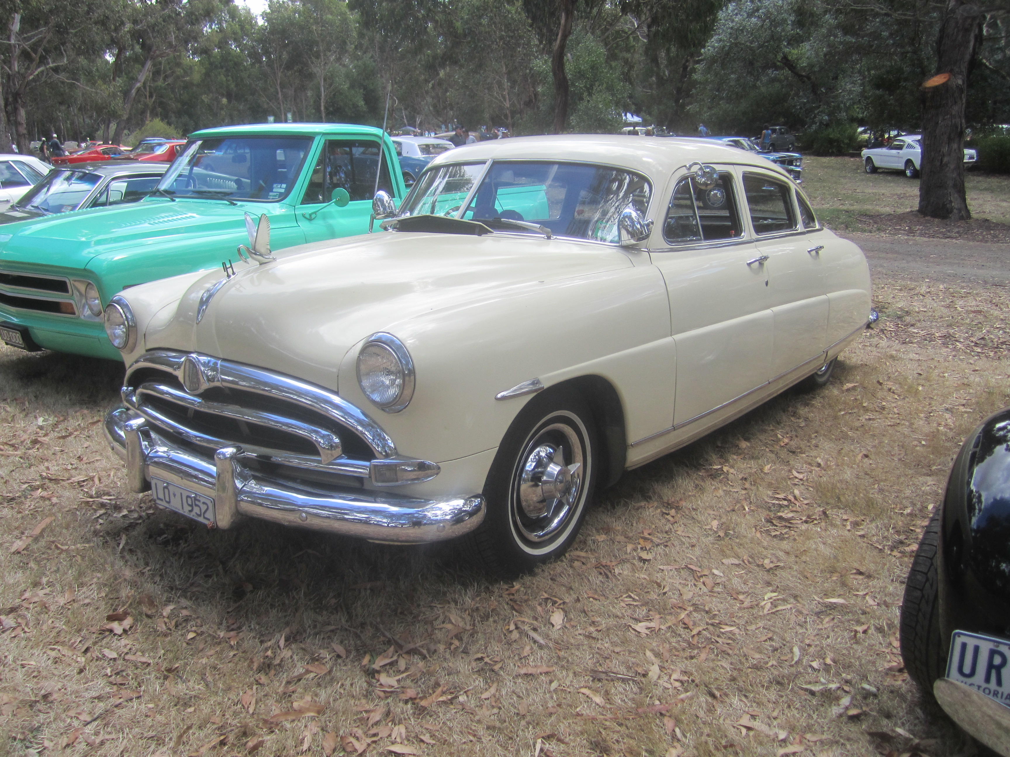 The Hornet was built from 1951-57, In 1955 Hudson and Nash were taken over by AMC, the Hudson name continued on until 1957, but a different styled car based on the Nash, so this the early model, was similar to the Hudson Commodore with that step down styling giving it a low slung look. They were available in Sedan, Coupe Hardtop and Convertible. Engine; 308 cu in 6 cyl